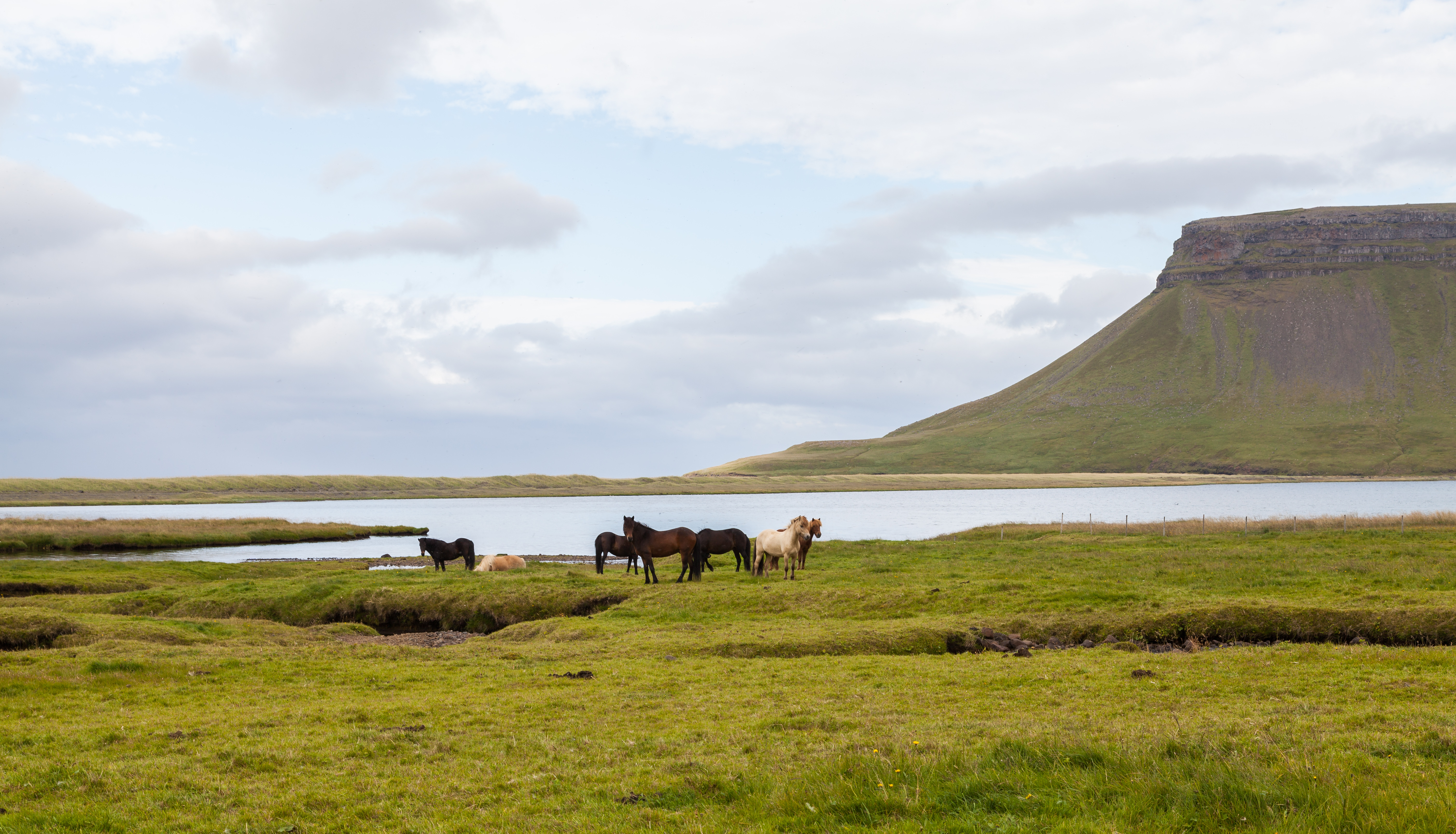 Búlandshöfði, Vesturland, Iceland